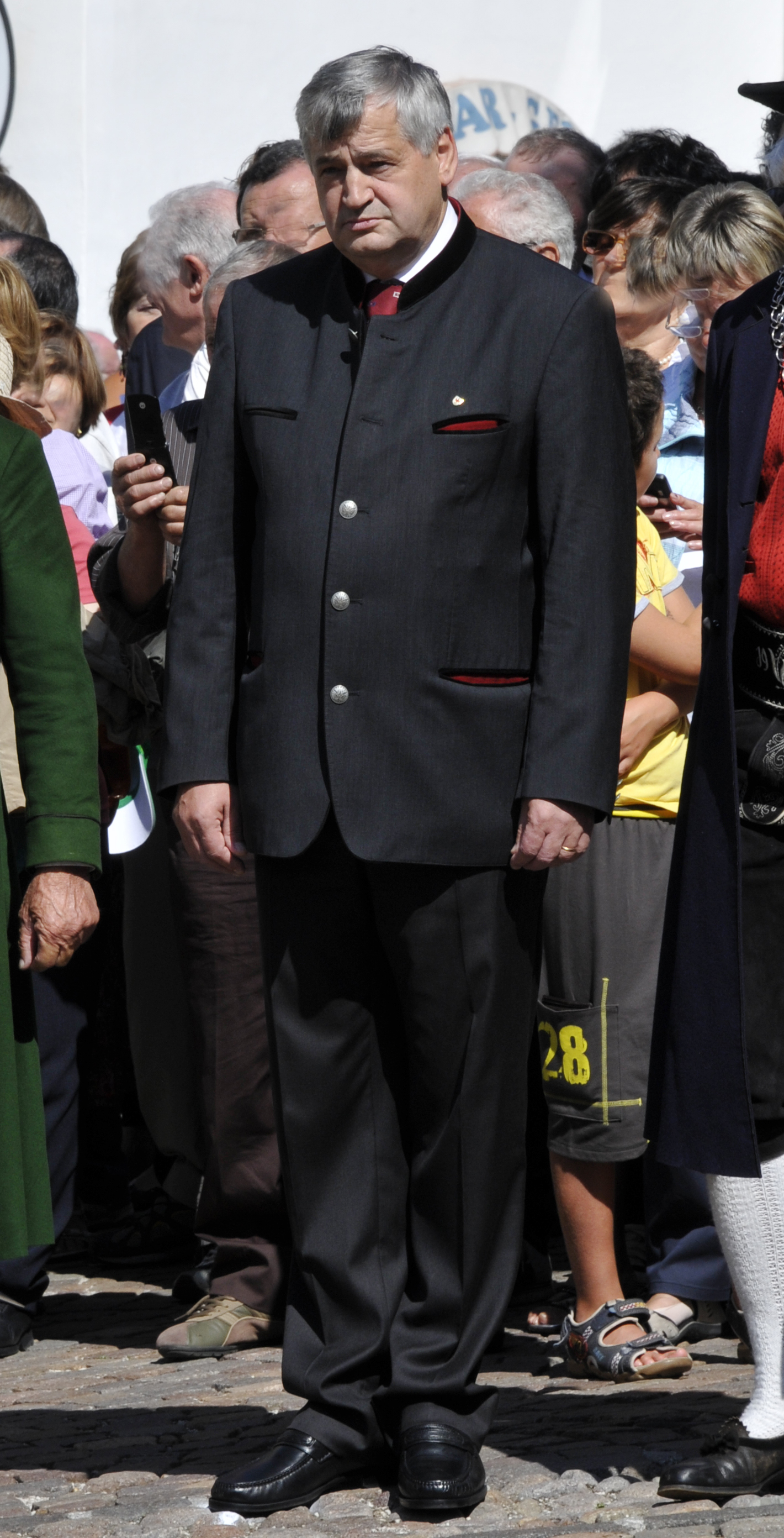 Florian Mussner Wolkenstein Gröden